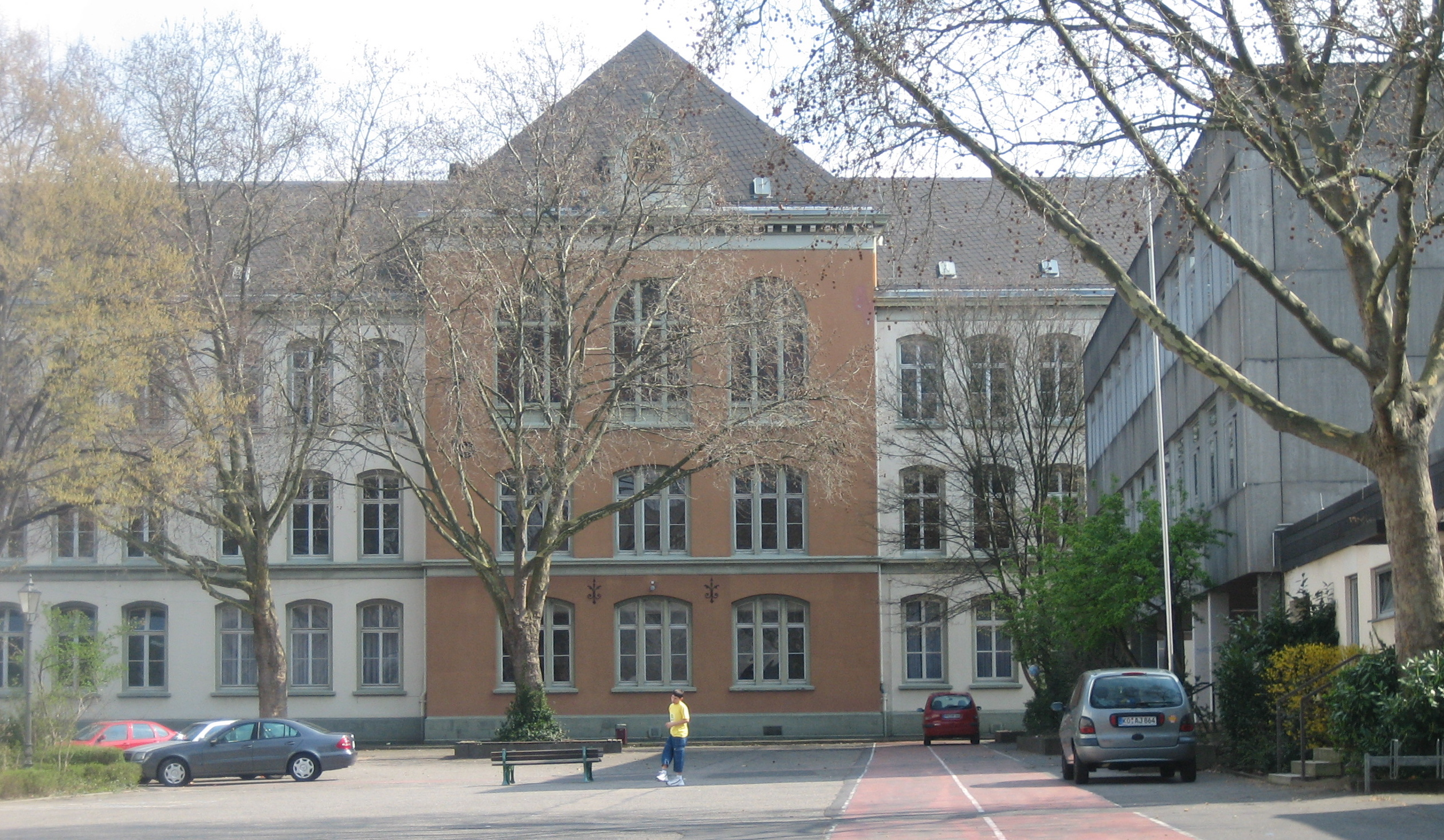 Building of the Görres Gymnasium in Koblenz, Germany.